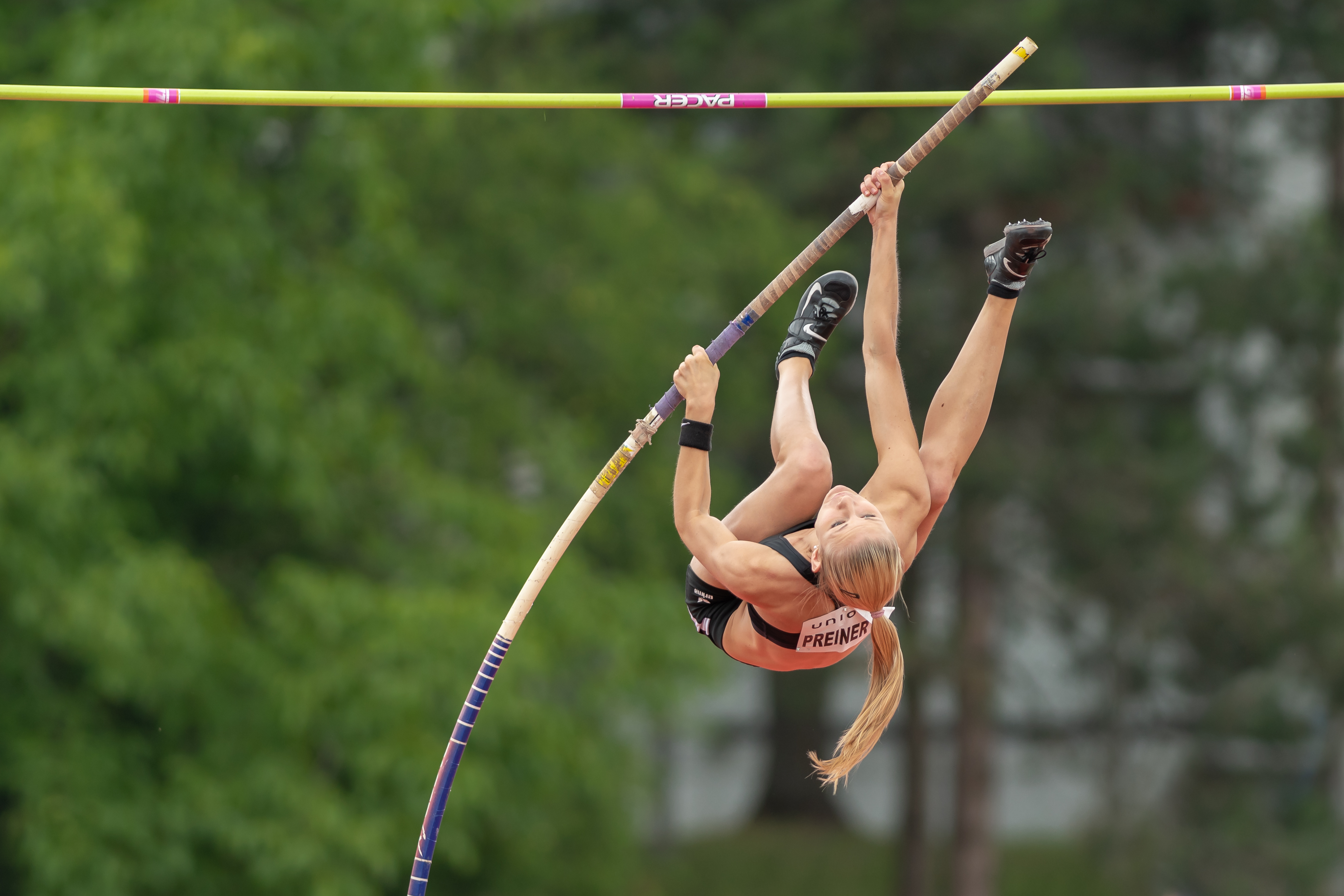 Leichtathletik Gala Linz 2018; women´s pole vault; Preiner Katrin, UNION Ebensee.